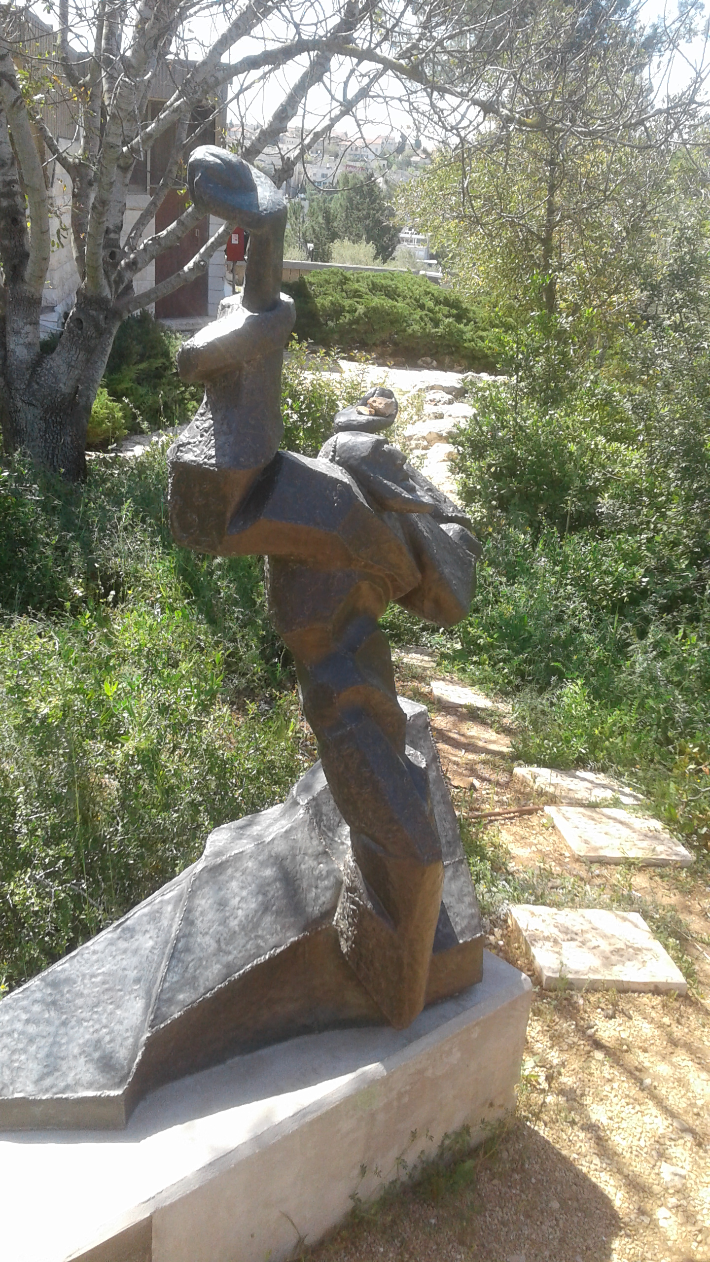 A sculpture in memory the Jews of Lwow. The sculpture is in Yad Vashem, Jerusalem. Made by Luisa Sternshtein and Youli Shmoukler. Copper, 1990.